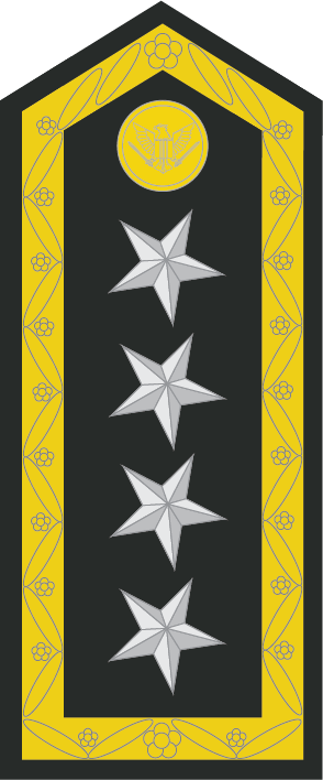 The Army of the Republic of Vietnam's rank of General (Đại Tướng), 1967-1975